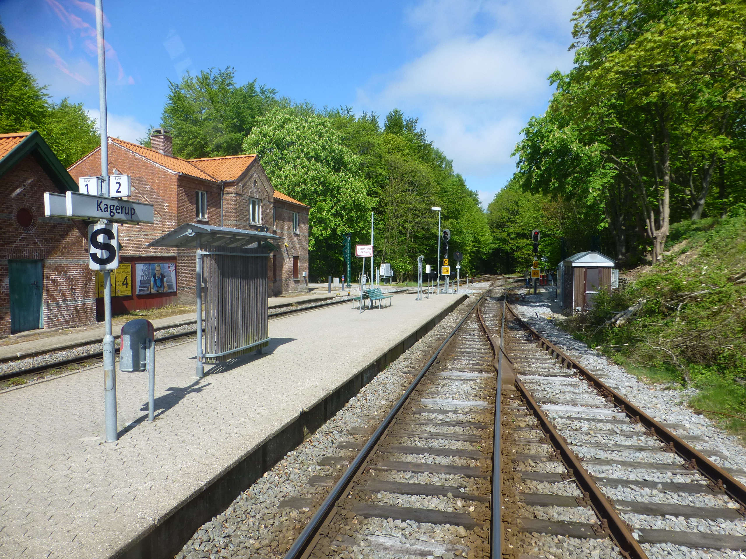 Cabin window view of Kagerup Station on Gribskovbanen in Denmark. The picture was taken from the diesel railcar LNJ SM during a special trip with railway entusiasts.